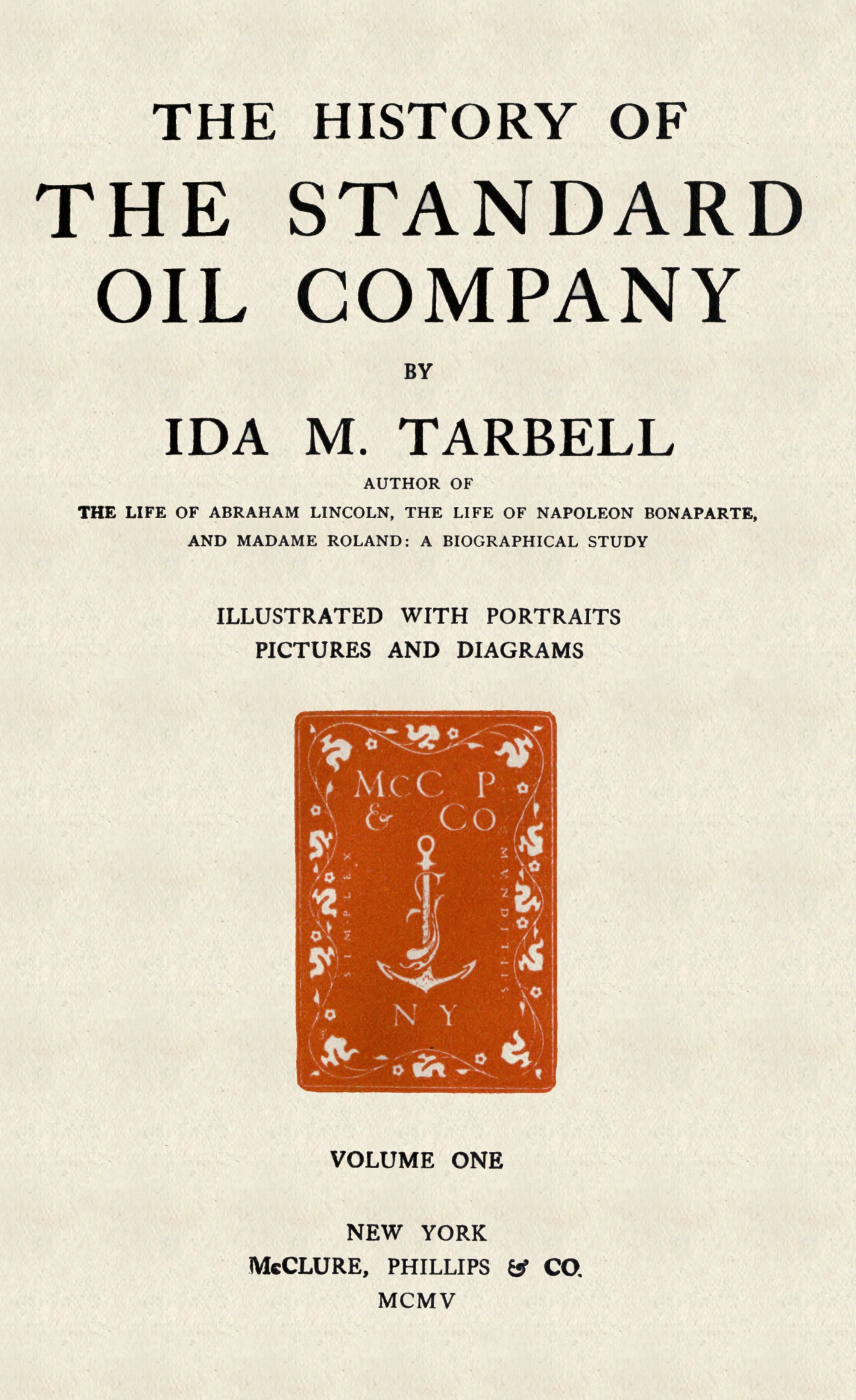 Front page of The History of the Standard Oil Company, written by Ida Tarbell